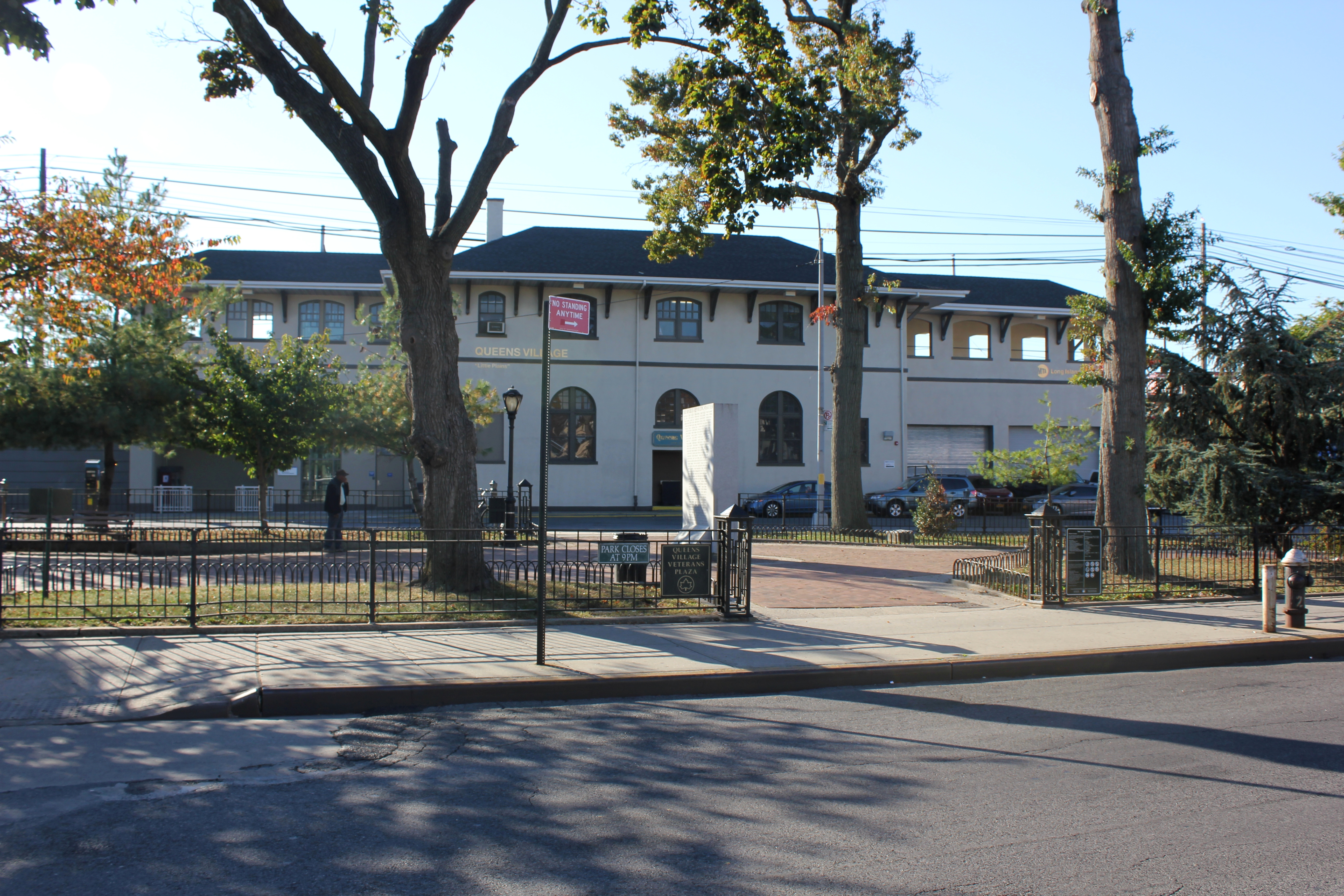 On October 30, 2013, MTA Long Island Rail Road President Helena E. Williams and Assemblywoman Barbara Clark unveiled the newly renovated and enhanced Queens Village LIRR Station. As a part of the project, workers have installed two new heavy duty elevators, one each serving the eastbound and westbound platforms. They also repainted the entire station building and added new signage and a new fire alarm system. The platform waiting room has been rehabilitated, and numerous improvements have been made throughout the complex, including replacement of platform railings, a new shelter shed, replacement of platform lighting, bird abatement devices, drainage and erosion control, and security cameras. Photo: MTA Long Island Rail Road / Poonam Punj